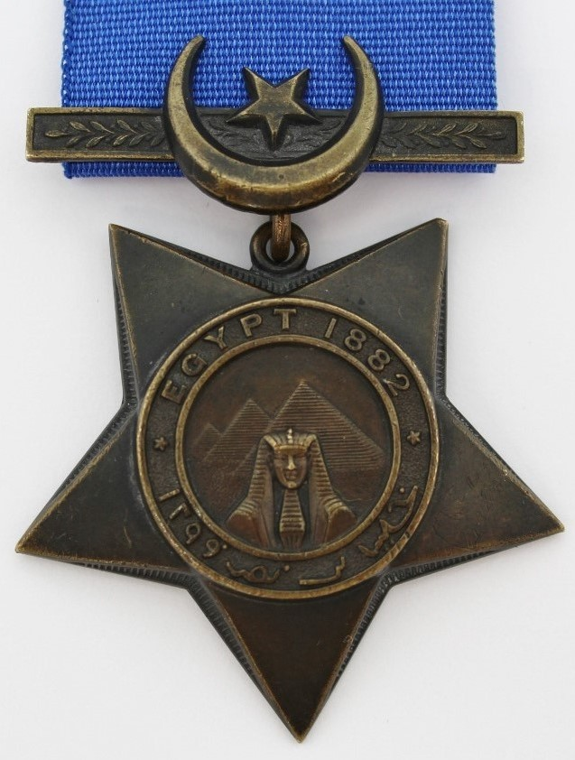 Khedives Star Obverse